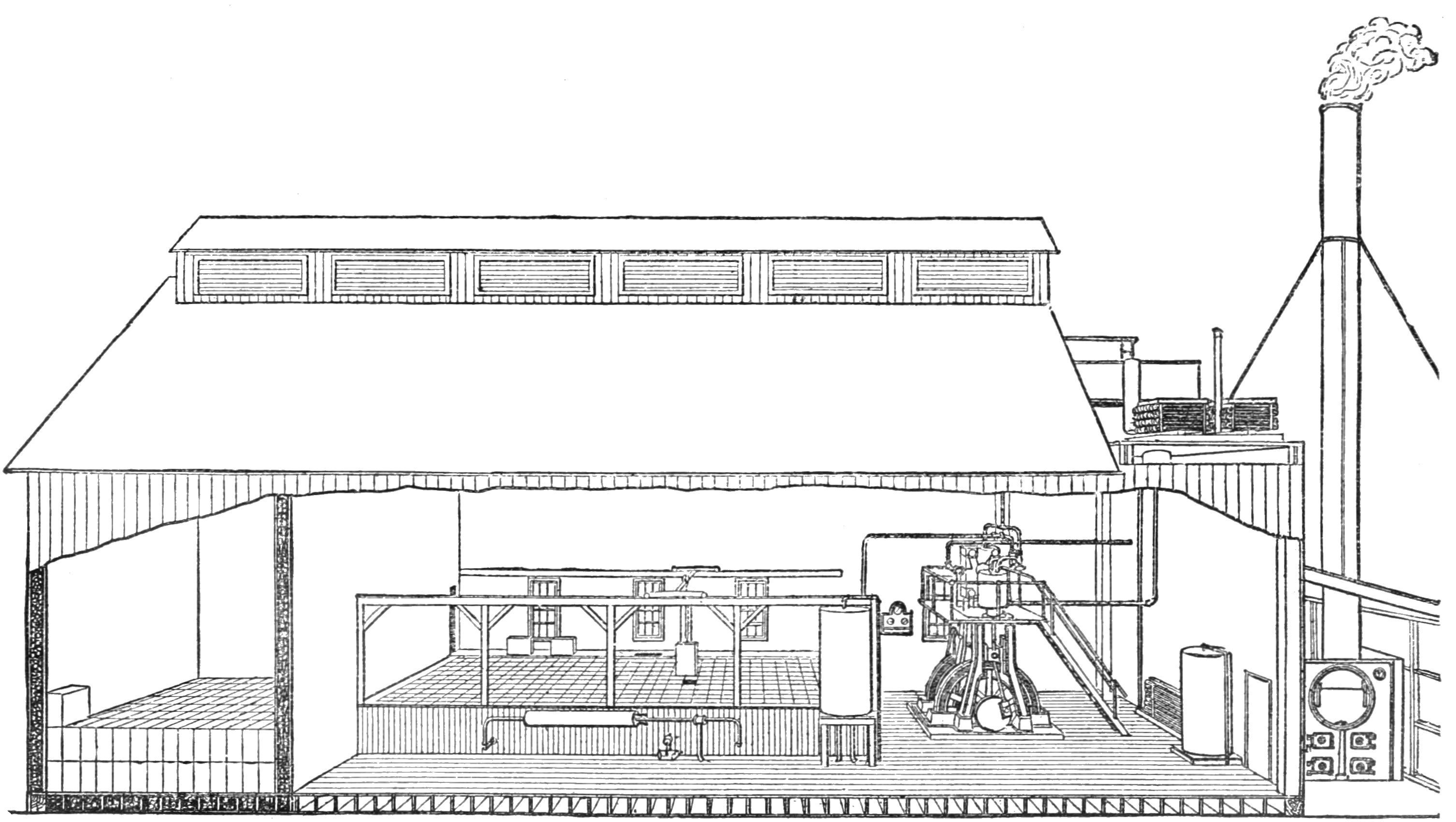 Interior of an ice factory